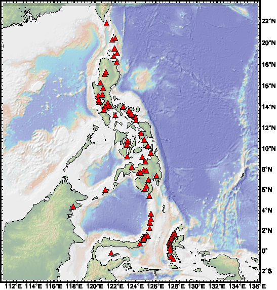 Volcanoes in the Philippines. Plotted by GeoMapApp.